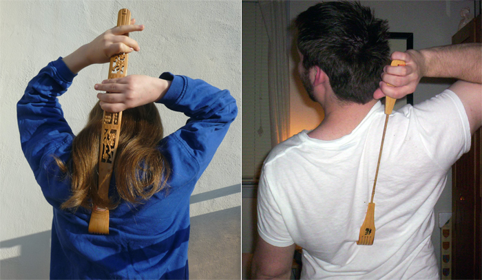 A demonstration of different kinds of back scratchers, enjoyed by the old and young, male and female.